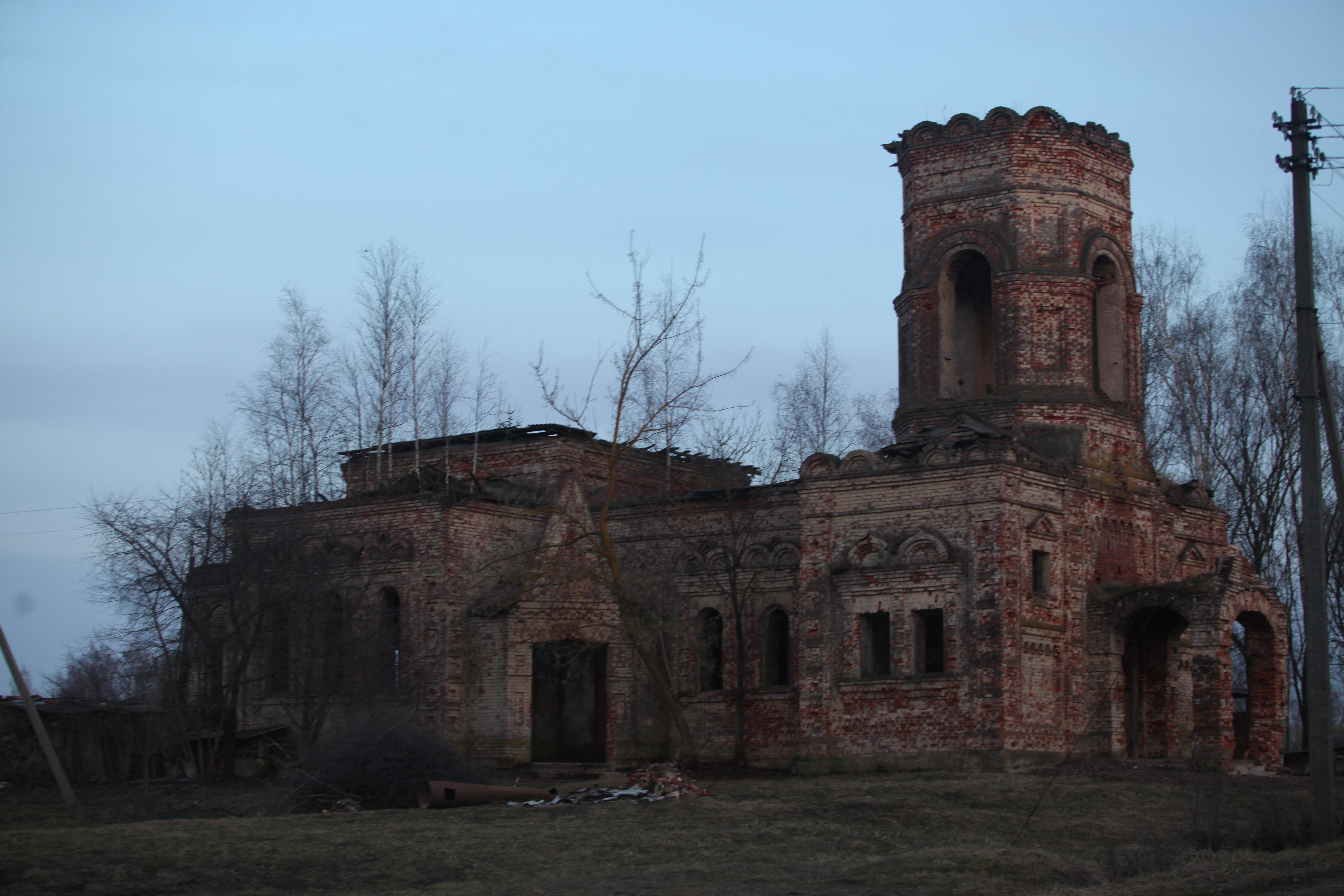 Беларуская (тарашкевіца): Ільлінская царква. в. Высокае This is a photo of Belarusian heritage monument. Reference number: 213Г000129 ( WLM)